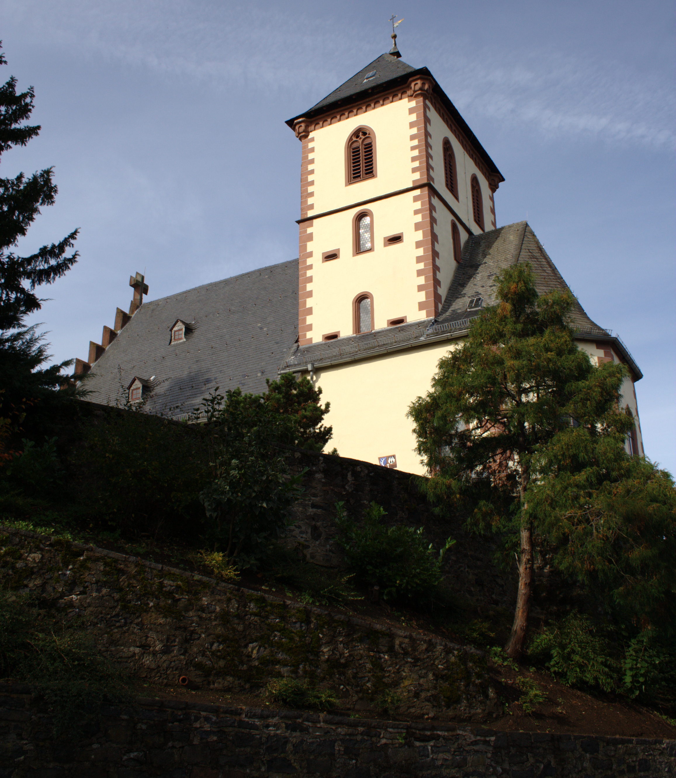 Church in Hitzkirchen, Kefenrod, Hessen, Germany